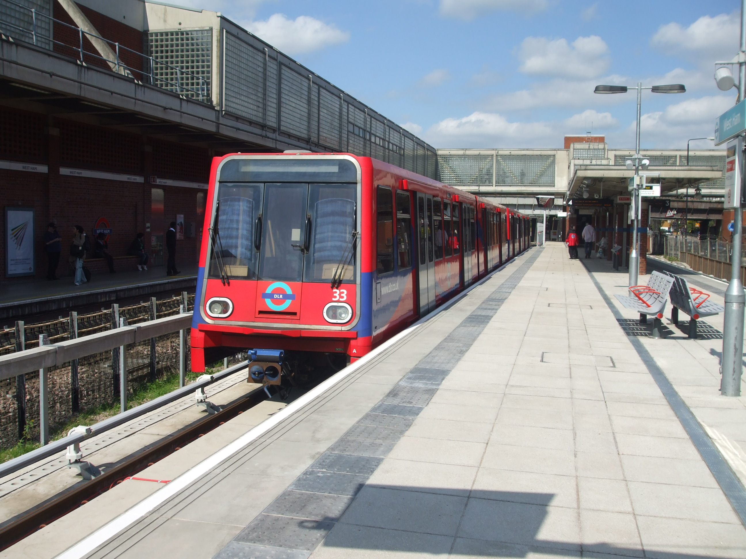 DLR unit 33 calls at West Ham with a northbound Stratford International train, soon after the Stratford International branch opened.